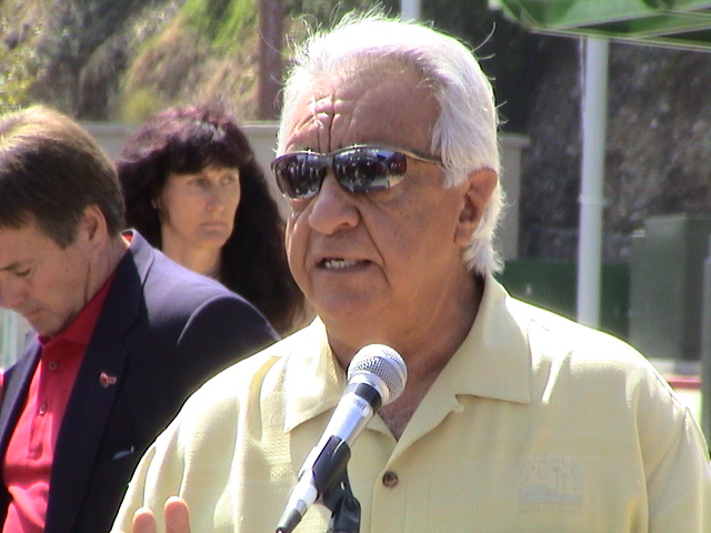 From Flickr: The mayor of La Mesa talking at the dedication of the 70th St. station.